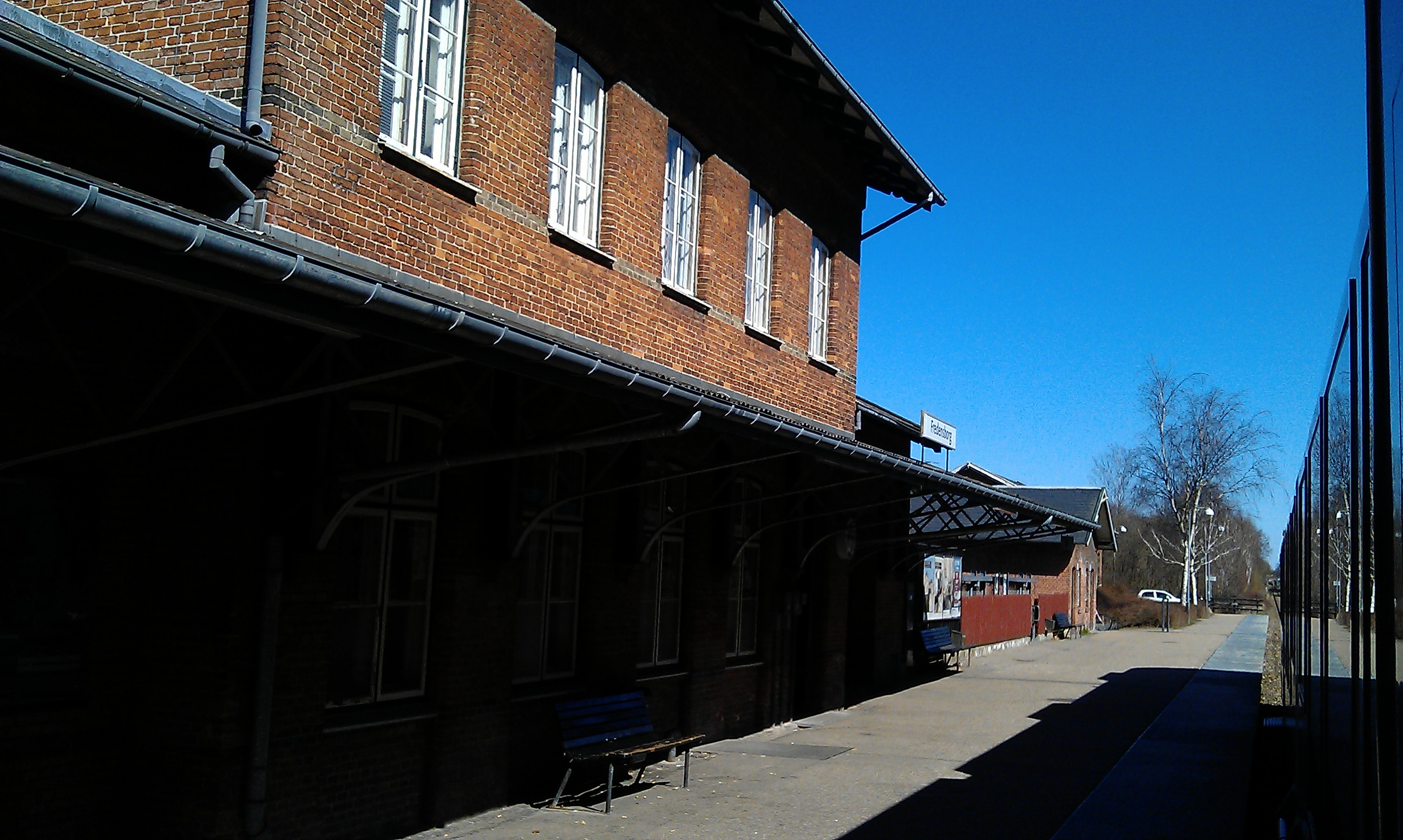 Fredensborg Station at Little North Railway line